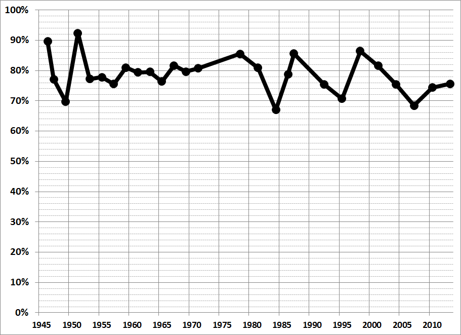 Voter turnout during national elections in the Philippines.